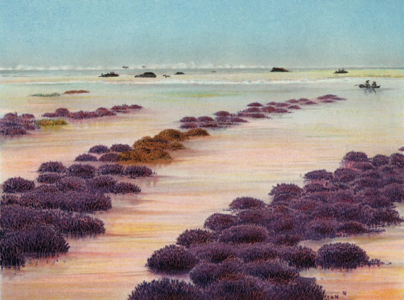 This is a painting of coral growing at the Houtman Abrolhos islands, off the west coast of Australia. The coral was identified at the time as Madrepora, but this name was previously applied to virtually any hard coral. As currently circumscribed, the genus Madrepora does not occur at the Houtman Abrolhos.